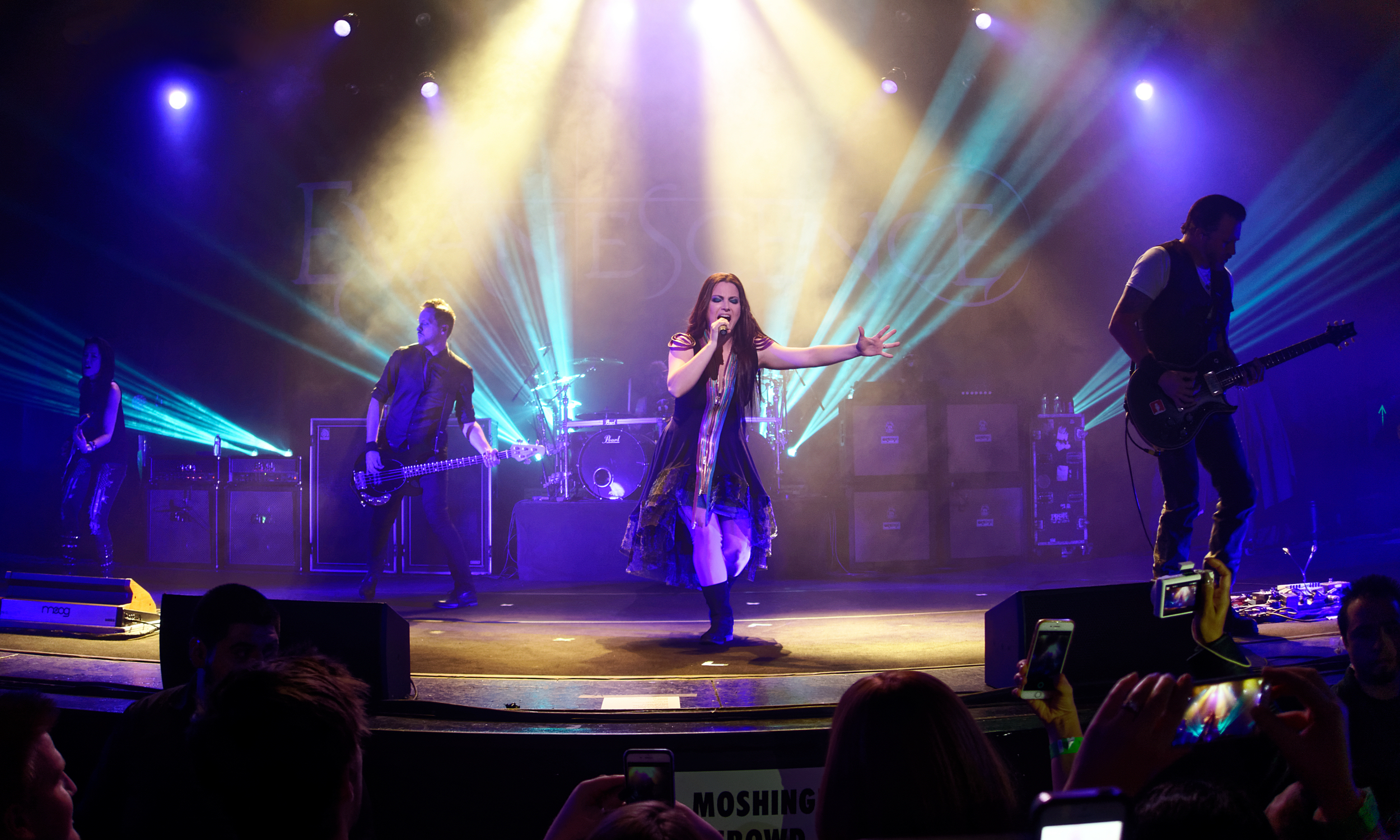 Evanescence performing live at The Wiltern theatre in Los Angeles, California on Tuesday November 17th, 2015.